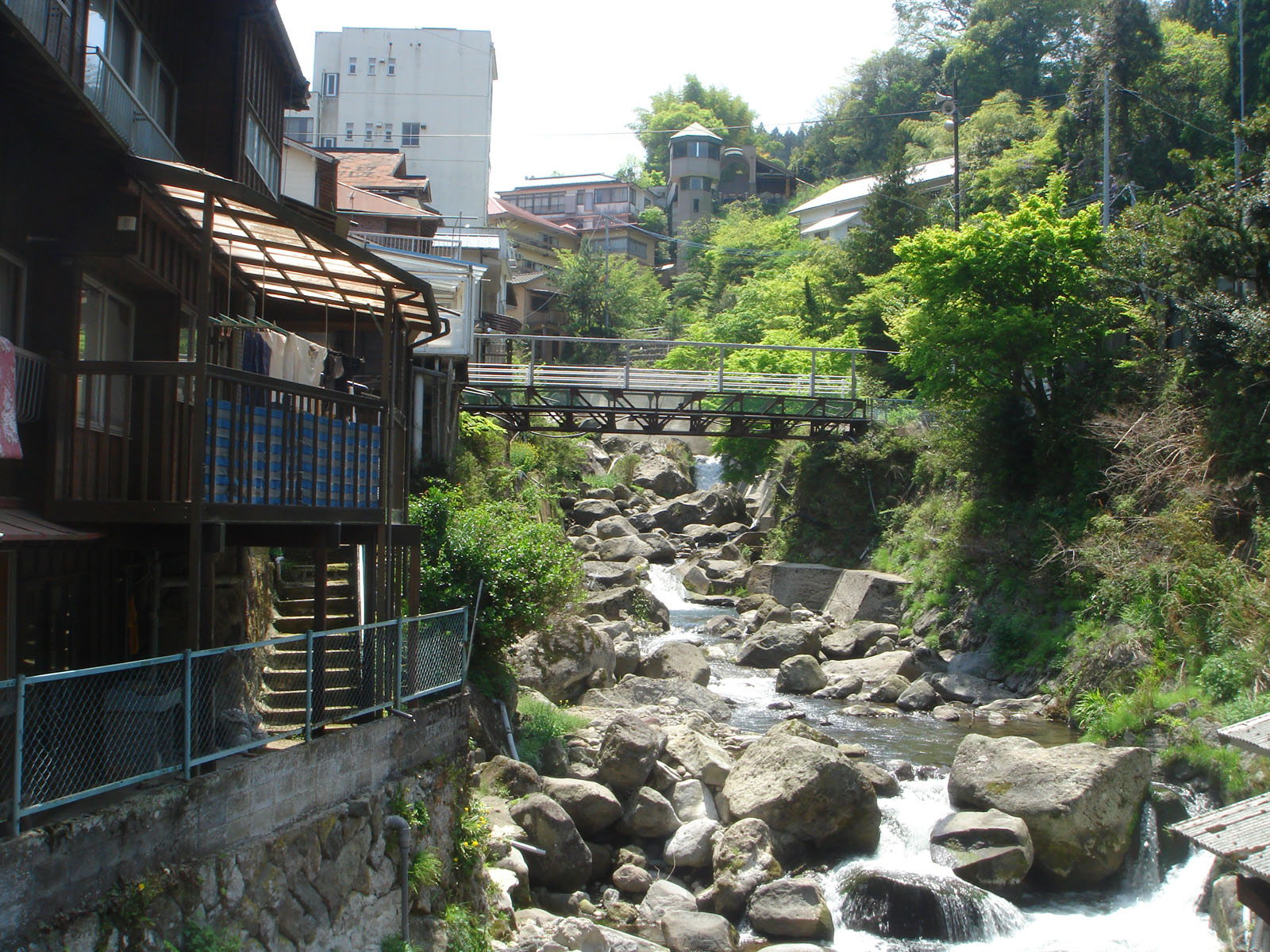 Yunohira Onsen, Yufu, Oita, Japan